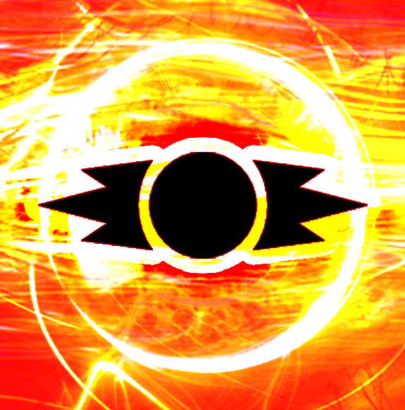 Insignia of the Sith Order.